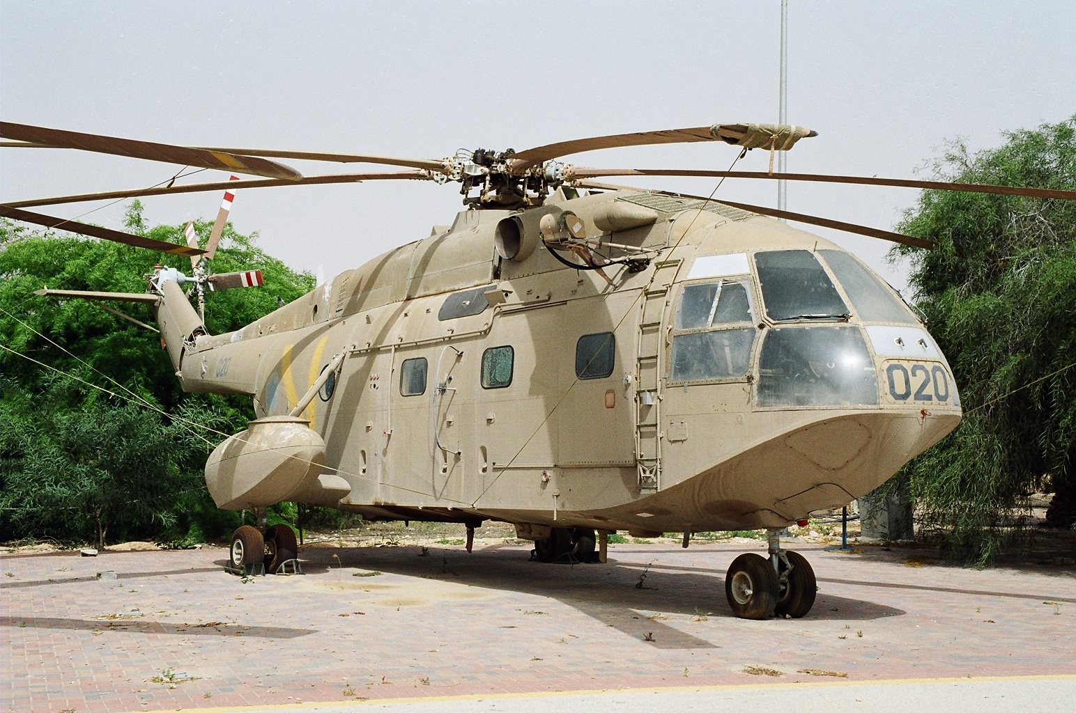 Super Frelon at the Israeli Air Force Museum in Hazterim